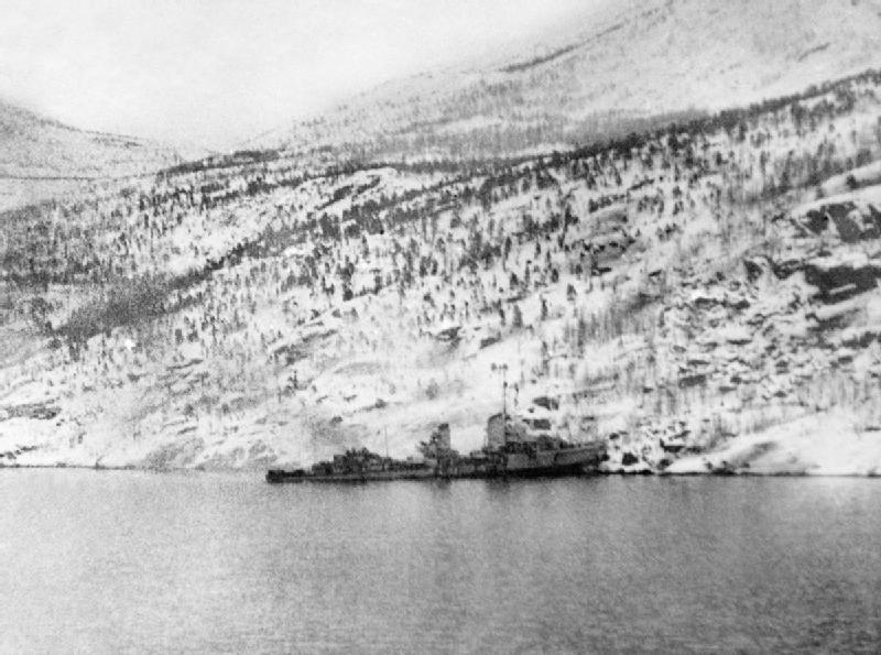 The German destroyer Z2 Georg Thiele beached in the inner part of the Rombaks Fjord off Sildvika after the 2nd Naval Battle of Narvik.